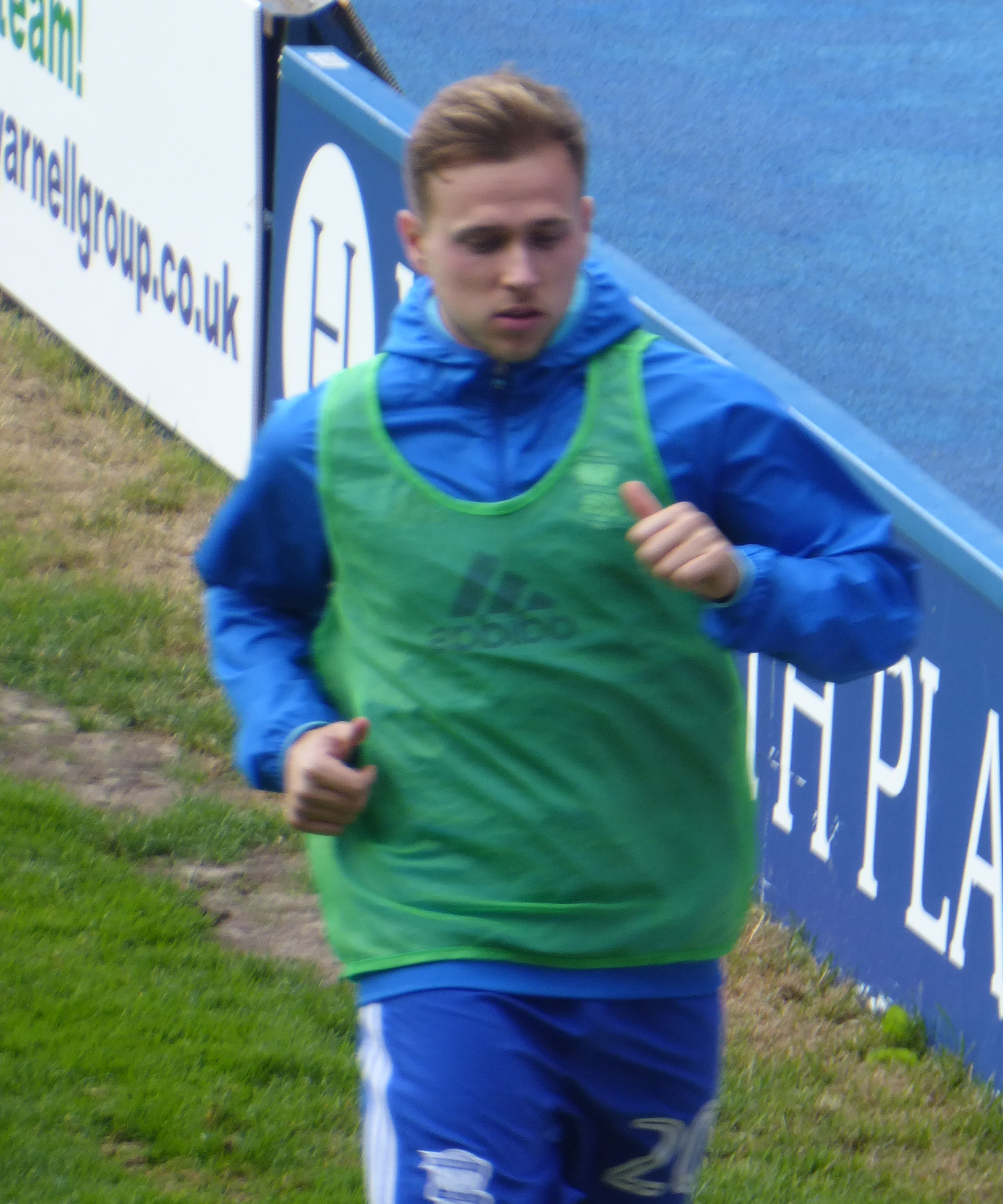 Greg Stewart warms up before making his Birmingham City Football Club home debut on 20 August 2016